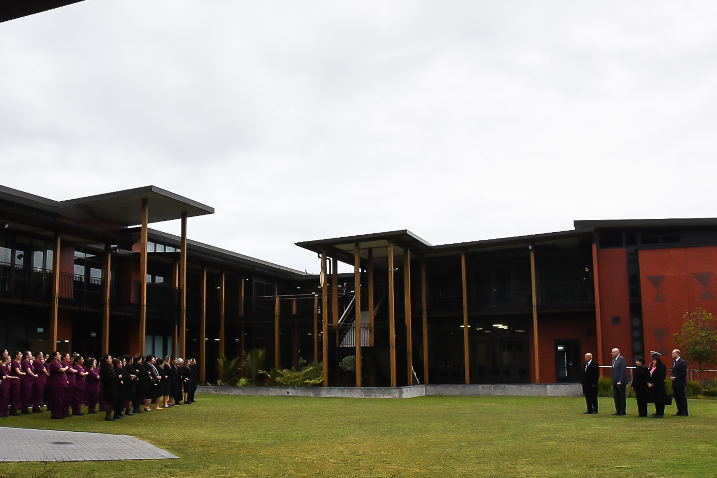 Welcome for Dame Patsy Reddy, Sir David Gascoigne, and their party at Te Whare Wānanga o Awanuiārangi, in Whakatāne, on 24 July 2019.